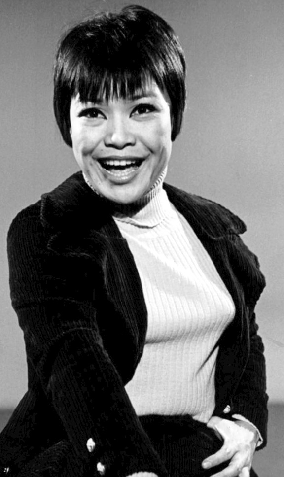 Publicity photo of actress/singer Pat Suzuki.